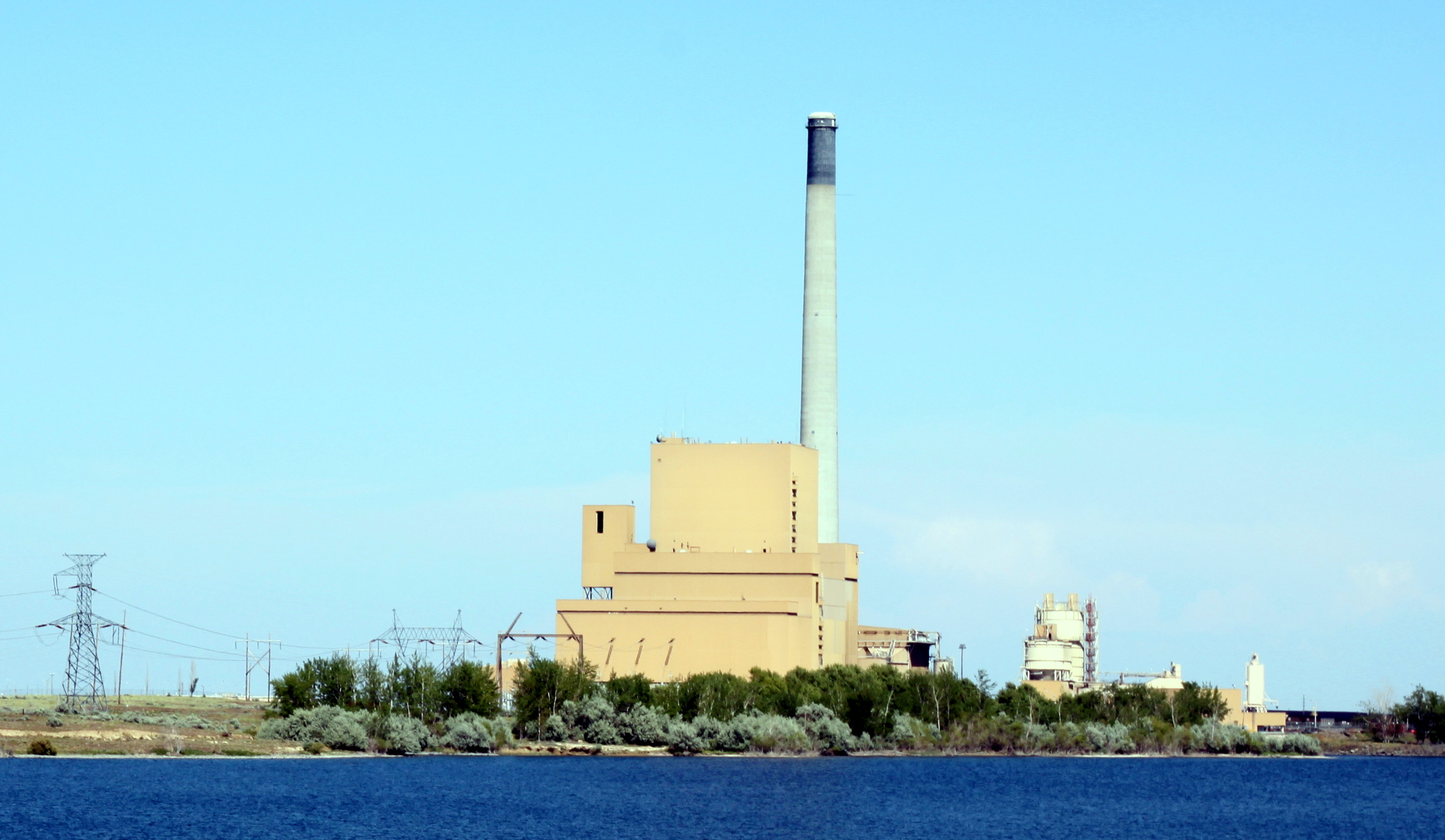 Boardman Coal Plant near Boardman, Oregon